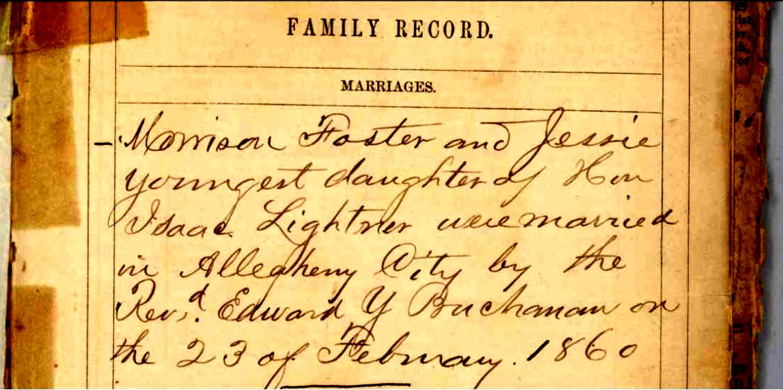 Morrison Foster's entry into Eliza Foster's bible from 1860. This image is provided as part of the Wikipedia Visiting Scholar’s Program, a collaboration between the University of Pittsburgh Library System, and the WikiEd foundation. This effort has been initiated to insert content into Wikipedia from the archives and collections held by the University of Pittsburgh. Contents of the archives and collections are in the public domain or photographed by Visiting Scholar, Barbara Page.